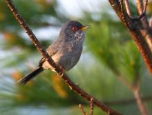 Balearic warbler